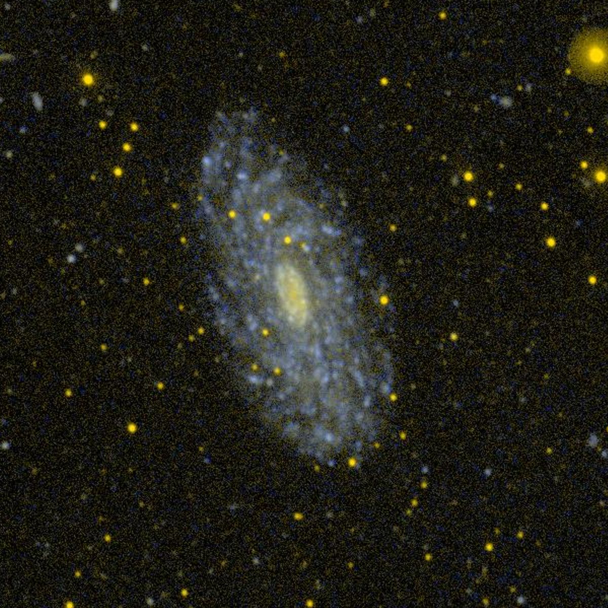 NGC 2090 galaxy by GALEX